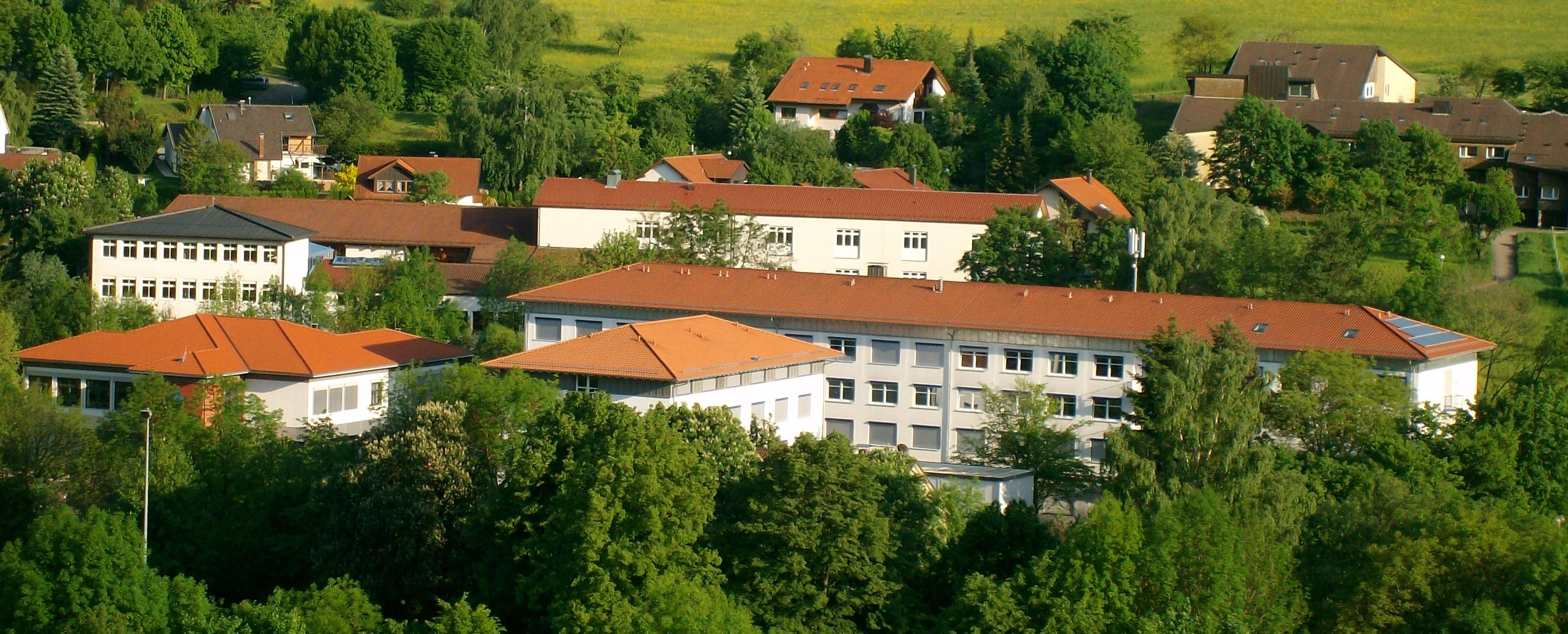 Paul-Kerschensteiner-Schule, Landesberufsschule Bad Überkingen, Germany